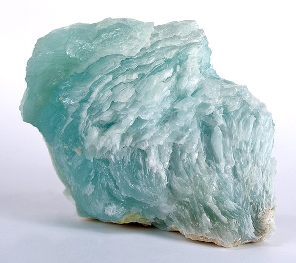 Brucite Locality: Wessels Mine (Wessel's Mine), Hotazel, Kalahari manganese fields, Northern Cape Province, South Africa (Locality at ) Size: 7.5 x 6.2 x 4.0 cm. Wavy, curving crystals of brucite with intense blue color - very rare for the species and classic for this mine. This is a superb, robust example, with great display aesthetics. Crystallized brucite is actually quite rare, known from just a handful of localities. For my taste, these are the prettiest for sheer color. Ex. Charlie Key.